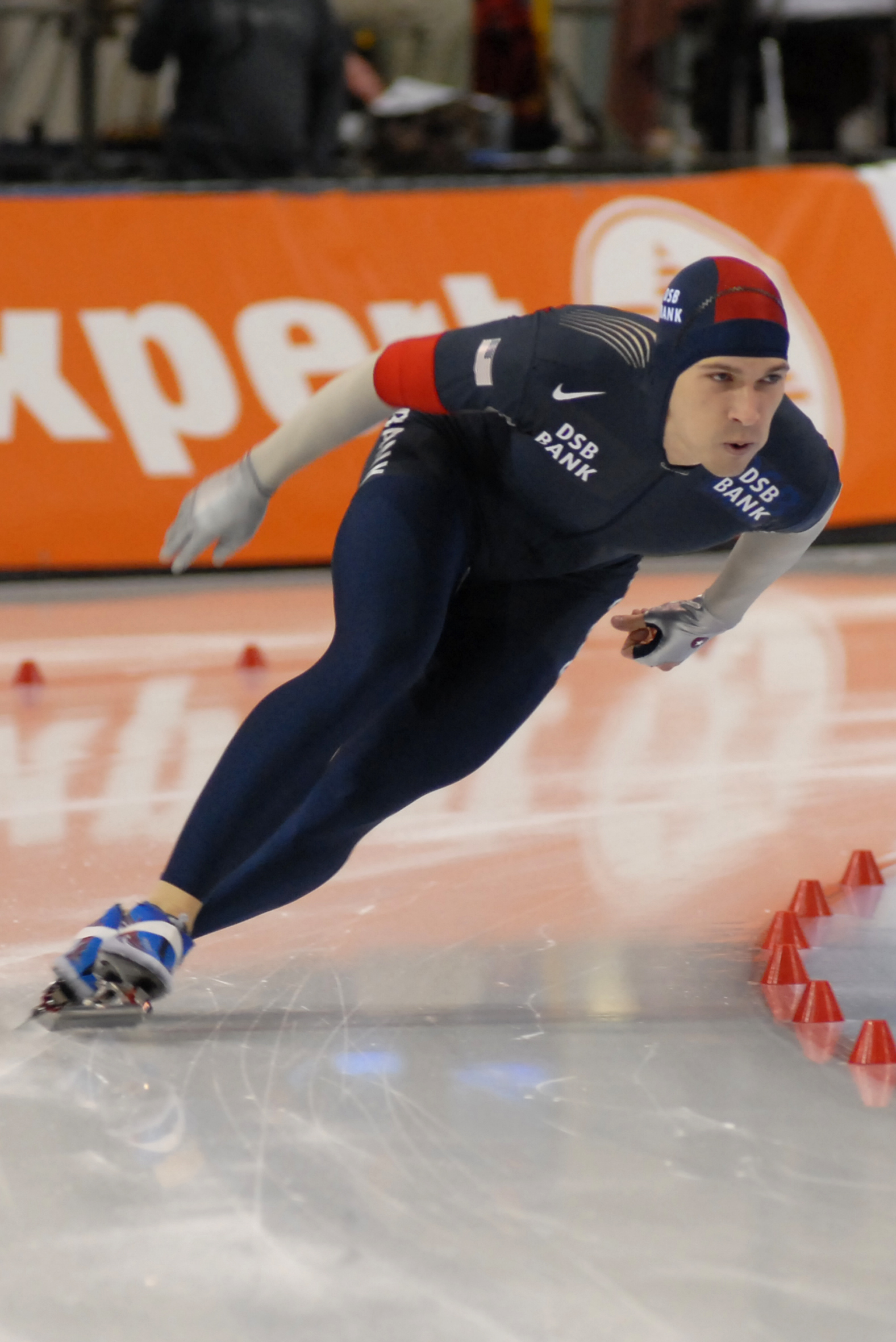 Kip Carpenter, speedskater from the U.S.